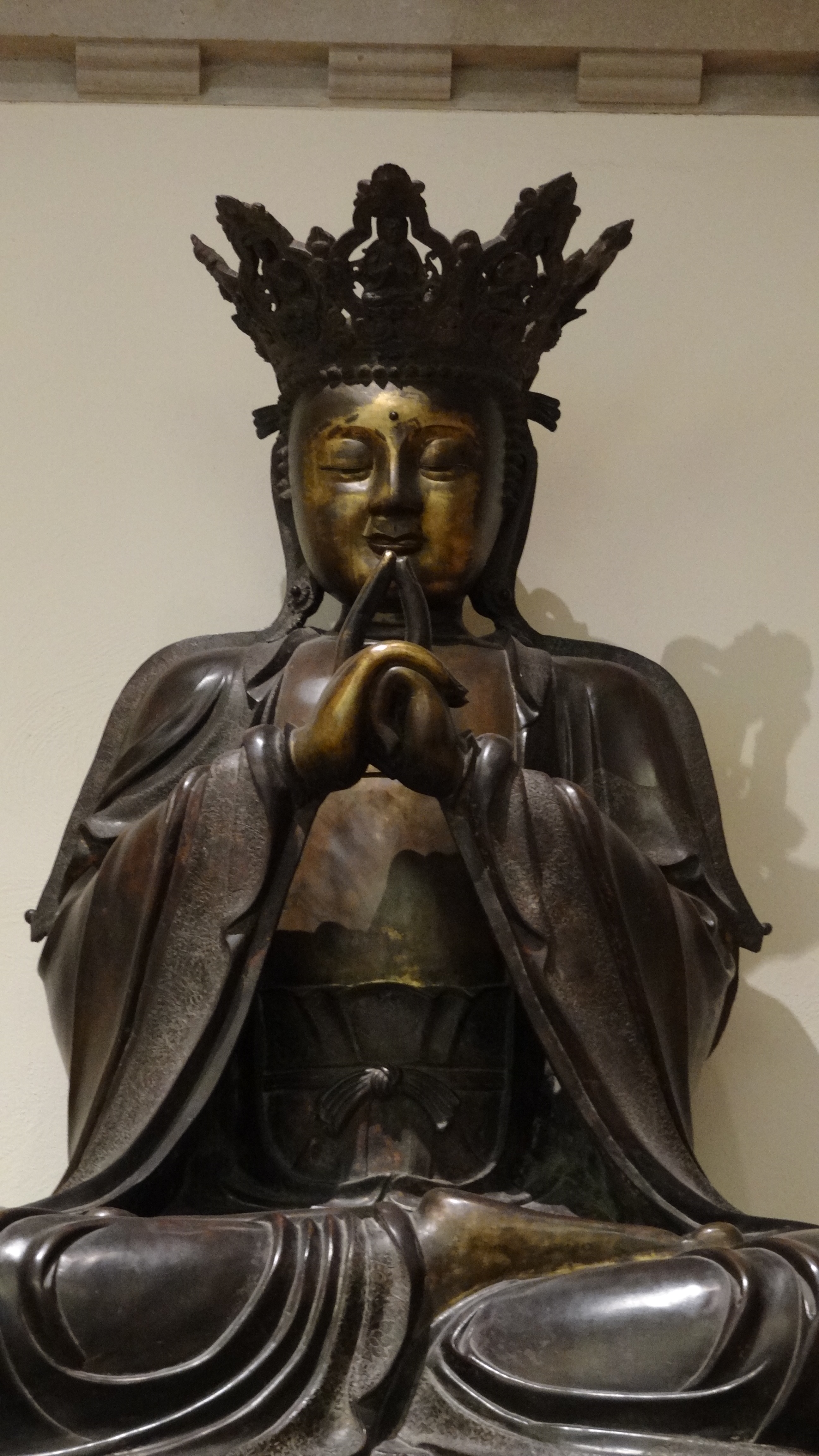 Bronze Buddha